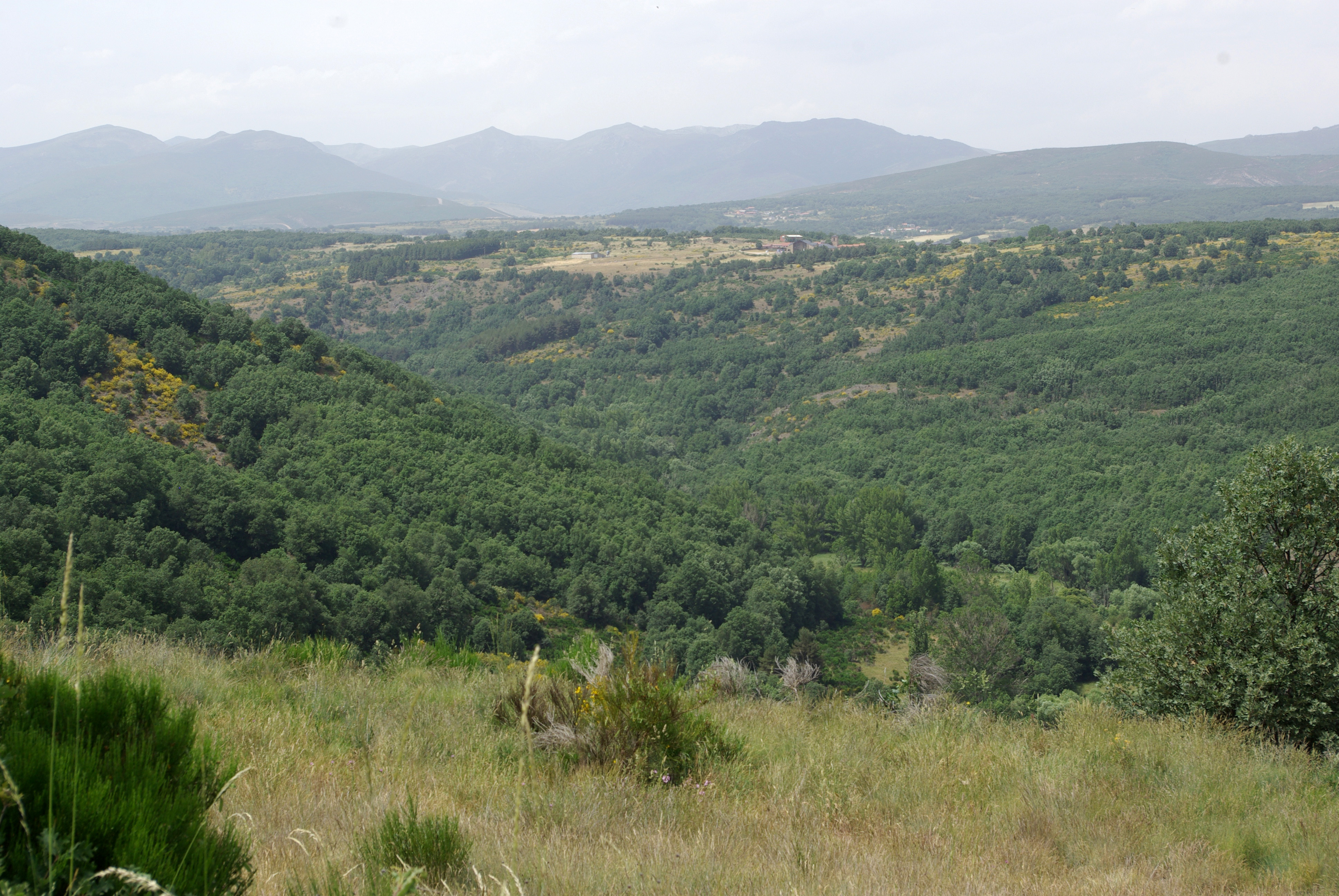 Valley of Omaña river from Castro La Lomba (Riello, León, Spain).